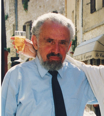 Photo of American theatre historian Gerald Bordman, released by owner to public domain.